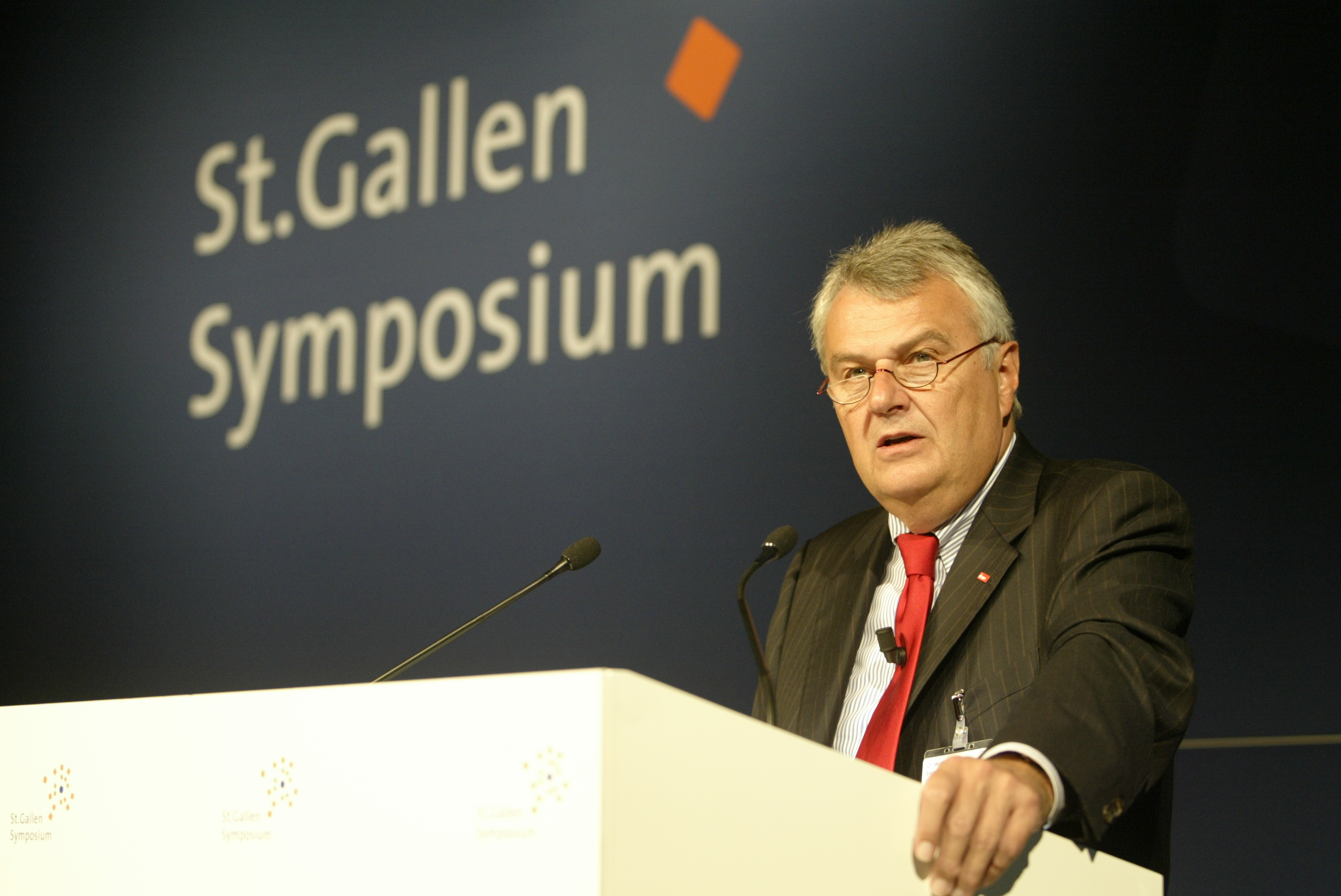 Wulf Bernotat in May 2009 at the 39. St. Gallen Symposium at the University of St. Gallen